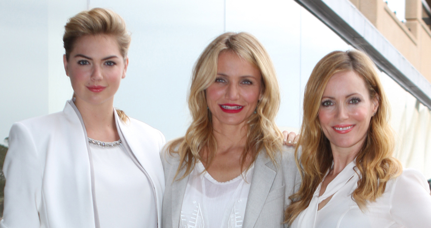 the Other Woman